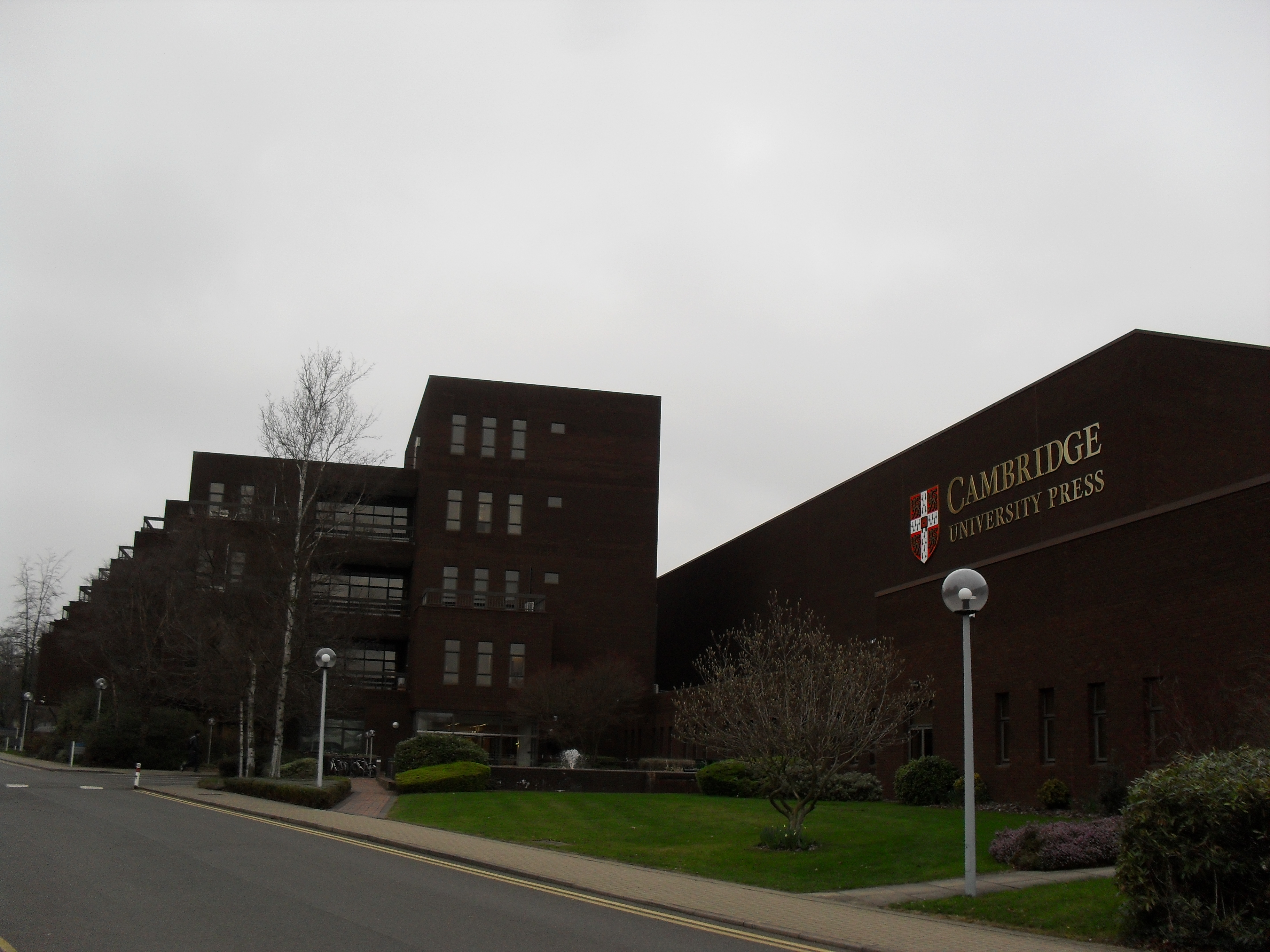 The Edinburgh Building, CUP.